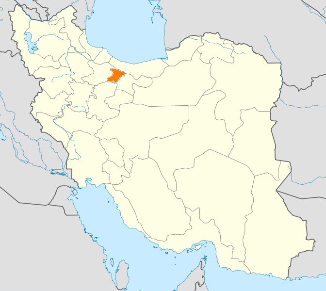 Location map of Iran. Equirectangular projection. Strechted by 118.0%. Geographic limits of the map: * N: 40.0° N * S: 24.5° N * W: 43.5° E * E: 64.0° E Made with Natural Earth. Free vector and raster map data @ .